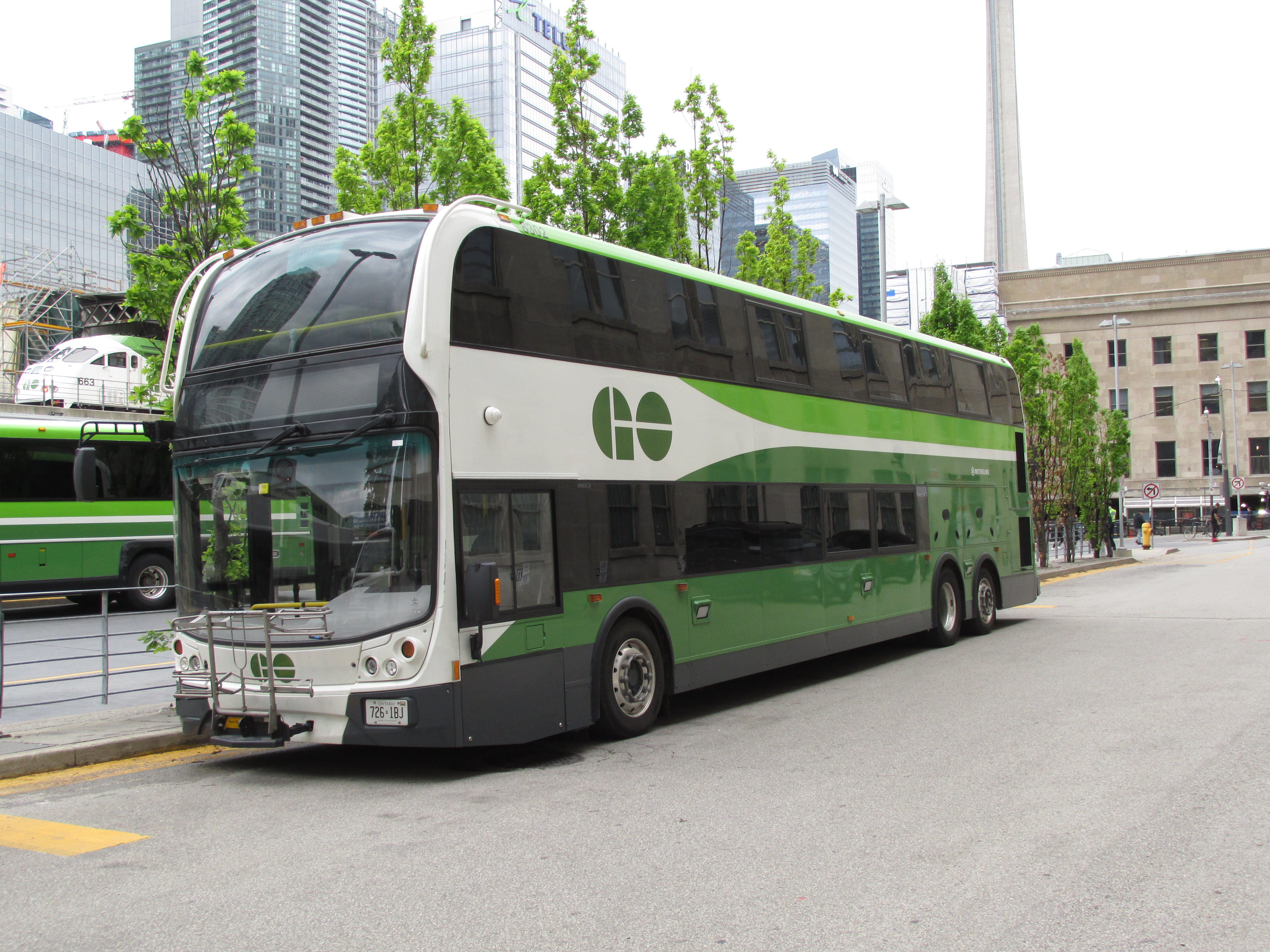 GO Transit Bus #8302, Ontario license plate 726 1BJ, parked outside the Union Station bus terminal.